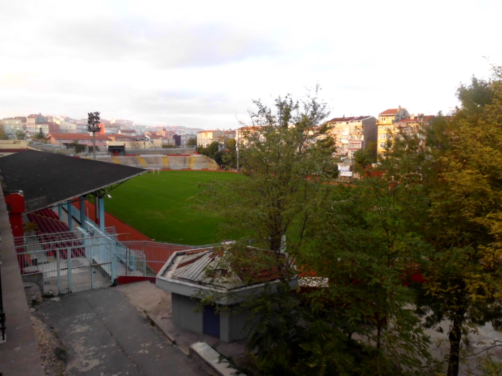 vefastadi4